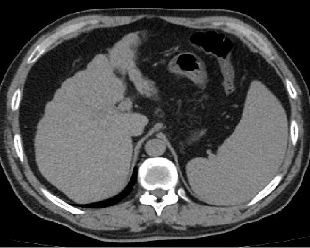 Abdominal computed tomography of a 42 year old man showing liver cirrhosis and splenomegaly due to secondary portal hypertension.